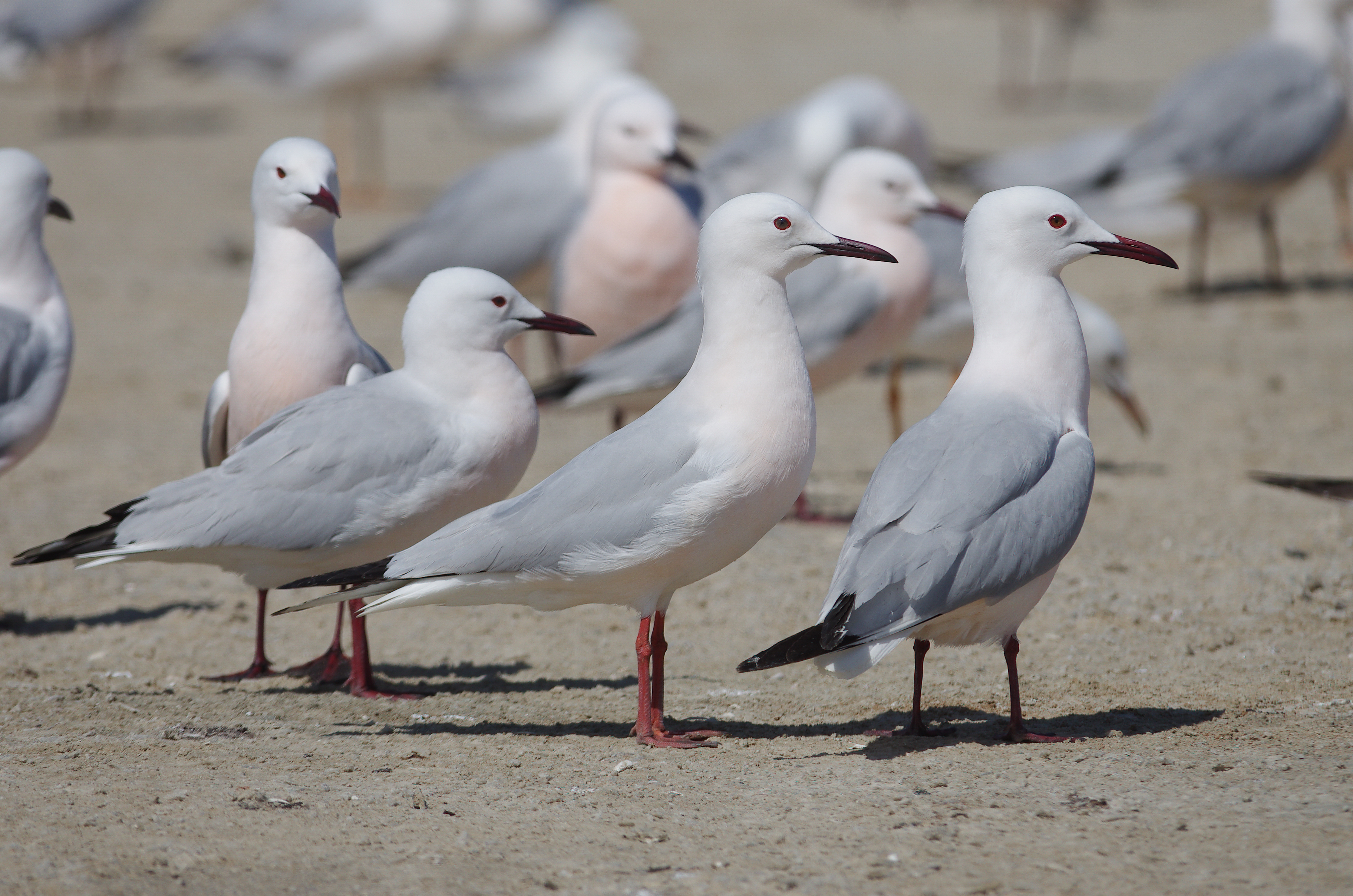 Slender-billed Gull Chroicocephalus genei. Sfax, Tunisia.